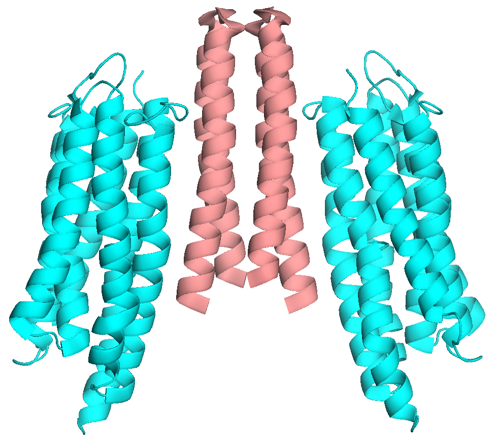 Side view of sensory rhodopsin II with associated transducer protein